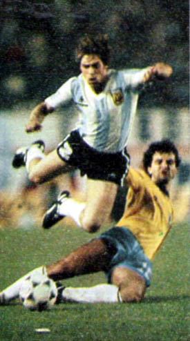 Brazilian player Tita disputing the ball to Argentine defender Julián Camino